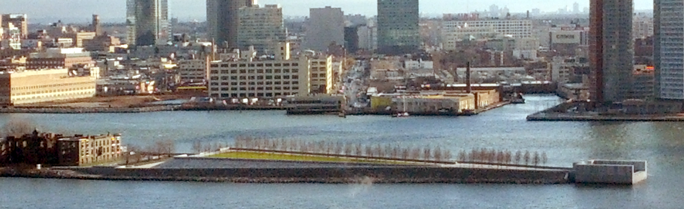 Franklin D. Roosevelt Four Freedoms Park, taken from Manhattan on Dec 21 2012. Smallpox Hospital is visible to the left. Hunter's Point, Queens is across the river behind the park.